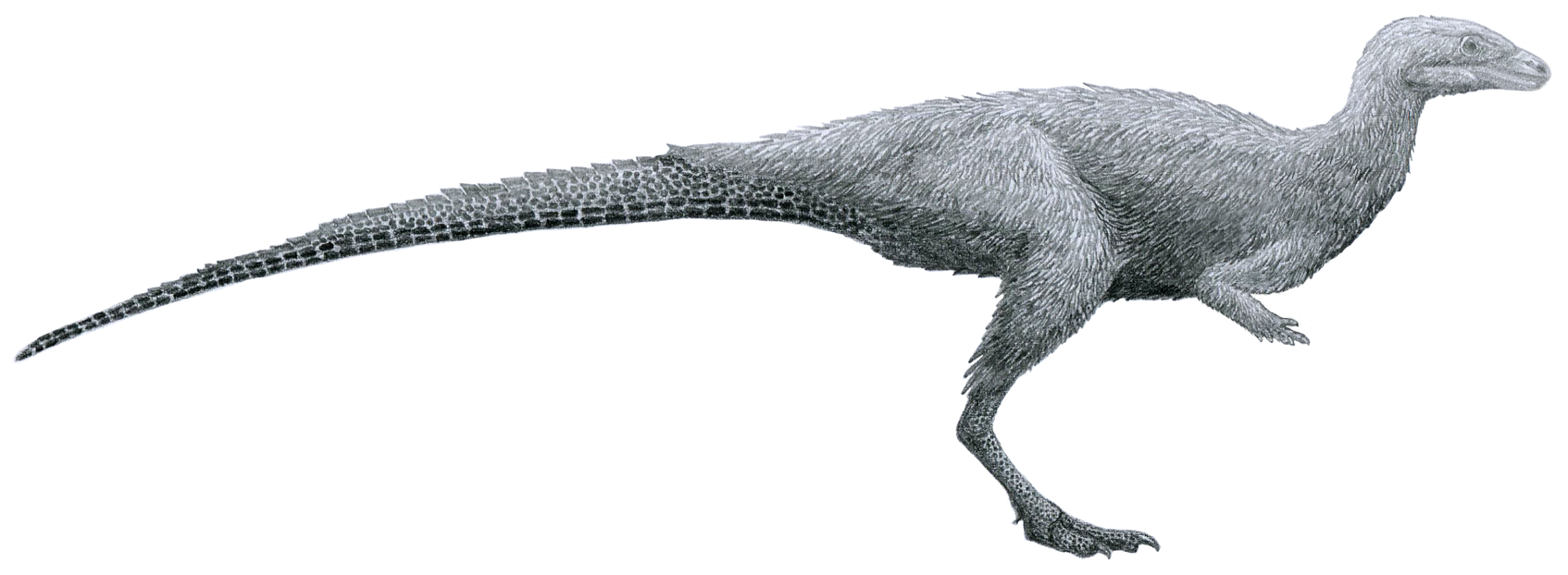 Reconstruction of Laquintasaura venezuelae.